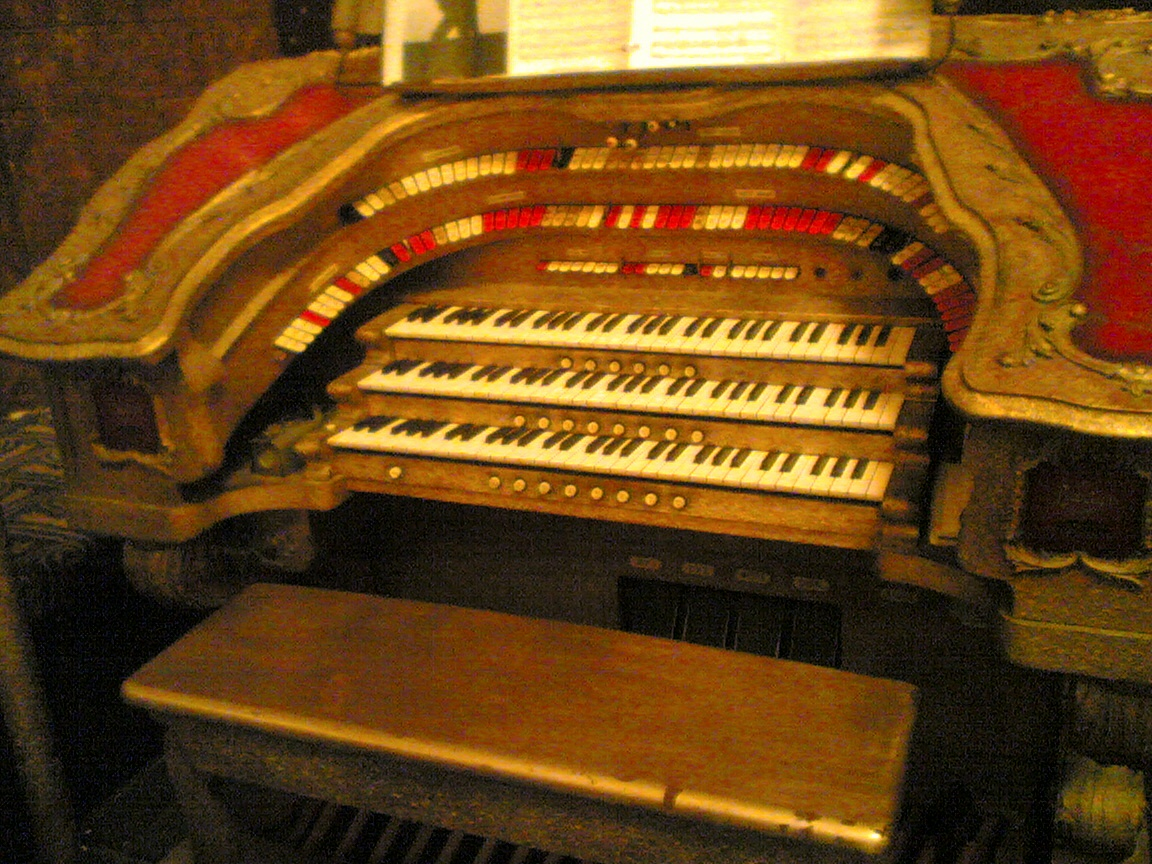 my favorite theatre's sound system...